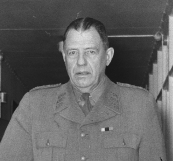 Supreme Commander, General Nils Swedlund on a visit to the Shipyard in Karlskrona in 1958.